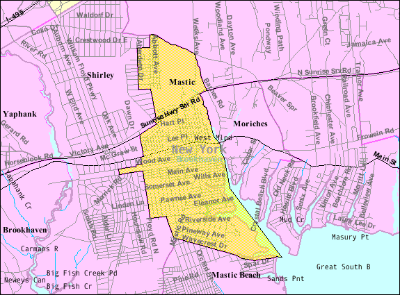 U.S. Census 2000 reference map for Mastic